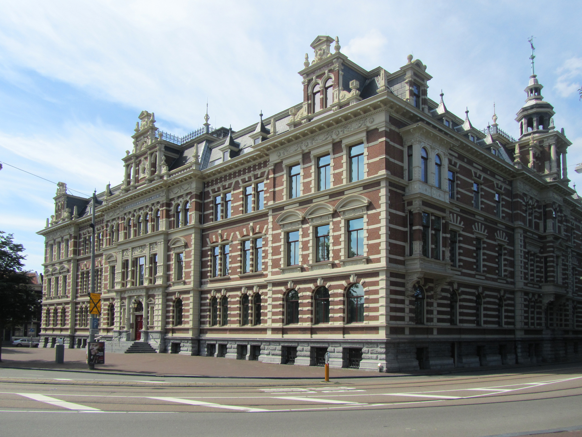 The Droogbak building in Amsterdam